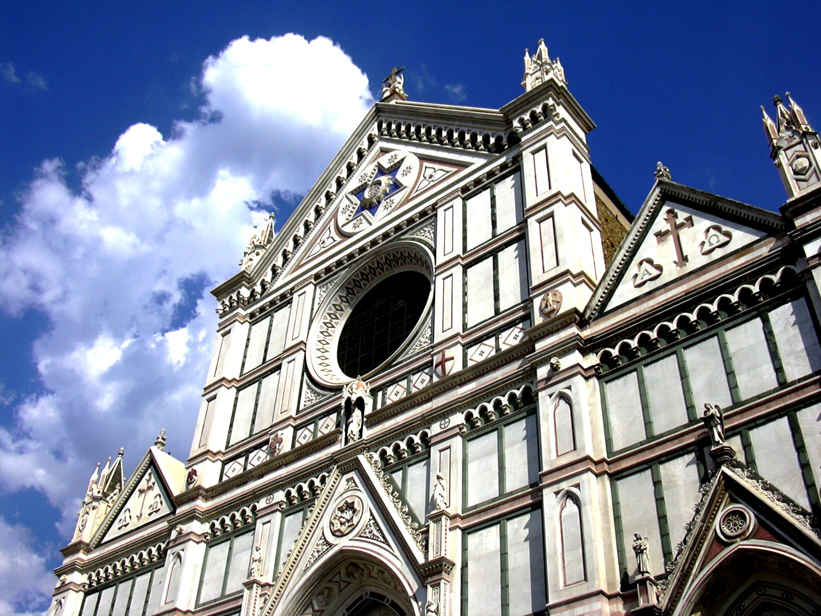 Basilica di Santa Croce di Firenze Year:2003 Credit as:Brendan Williams Uploader is photographer